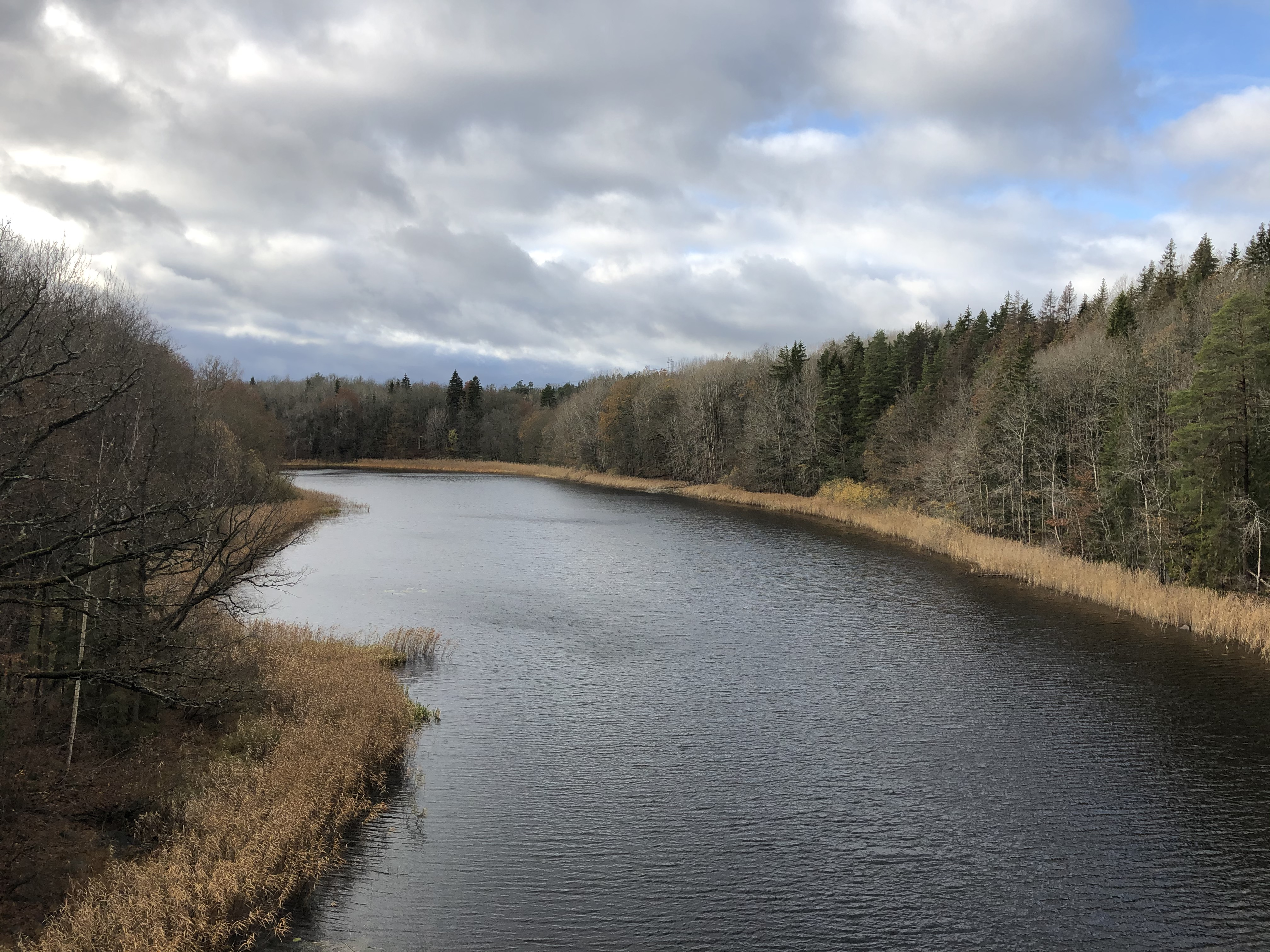 Марен